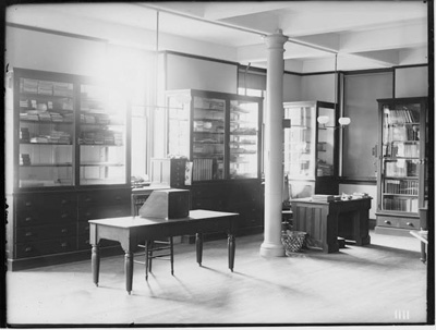 Peabody Museum Library, circa 1893. Courtesy of the Peabody Museum of Archaeology and Ethnology, Harvard University, PM 2004.24.1111